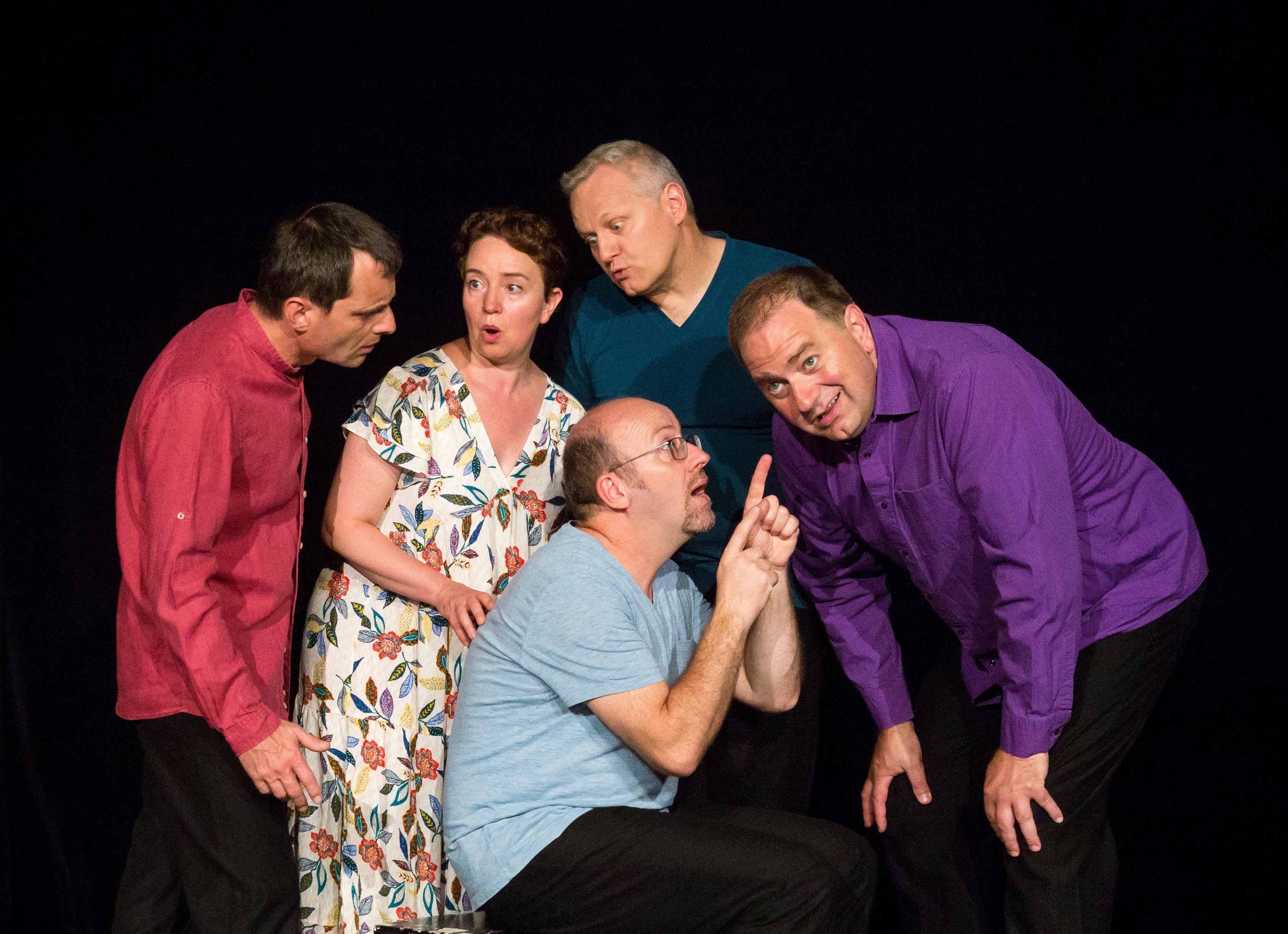 Piccolo en 2019